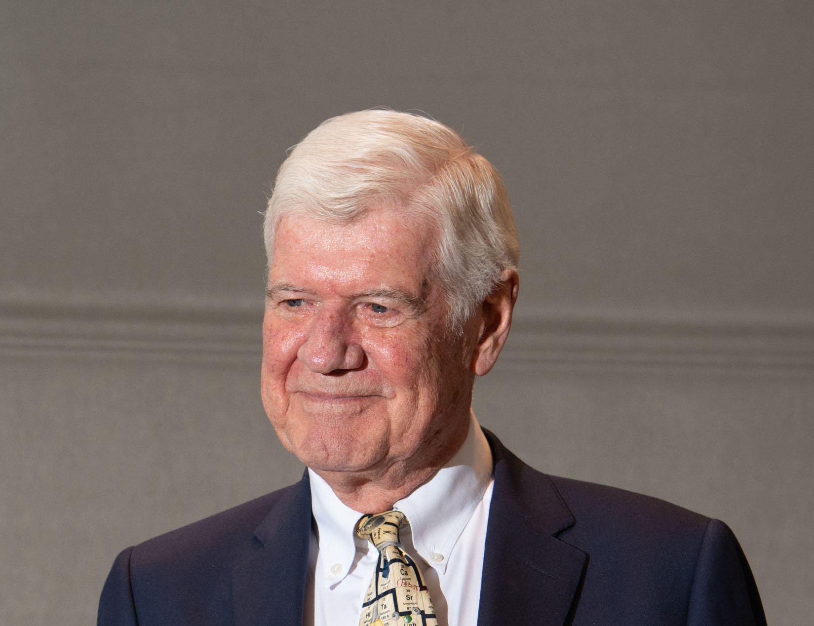 Photograph of W. Graham Richards, recipient of the 2018 Richard J. Bolte Sr. Award, at Heritage Day, May 9, 2018, at the Science History Institute.